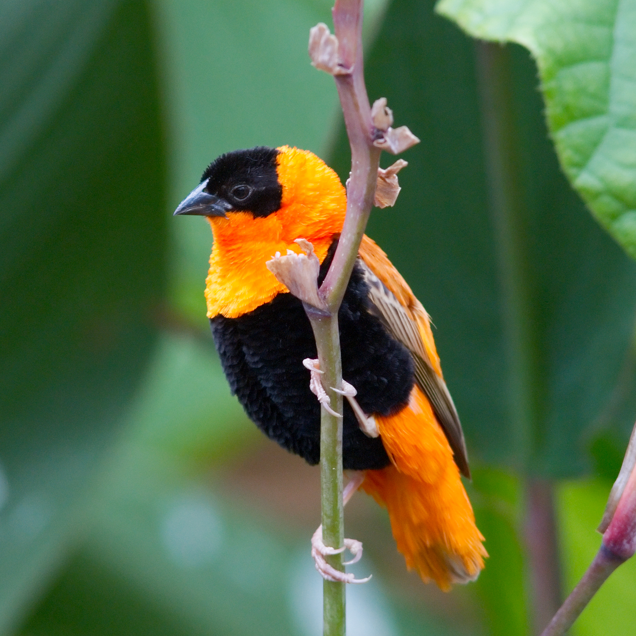 Euplectes franciscanus Northern Red Bishop